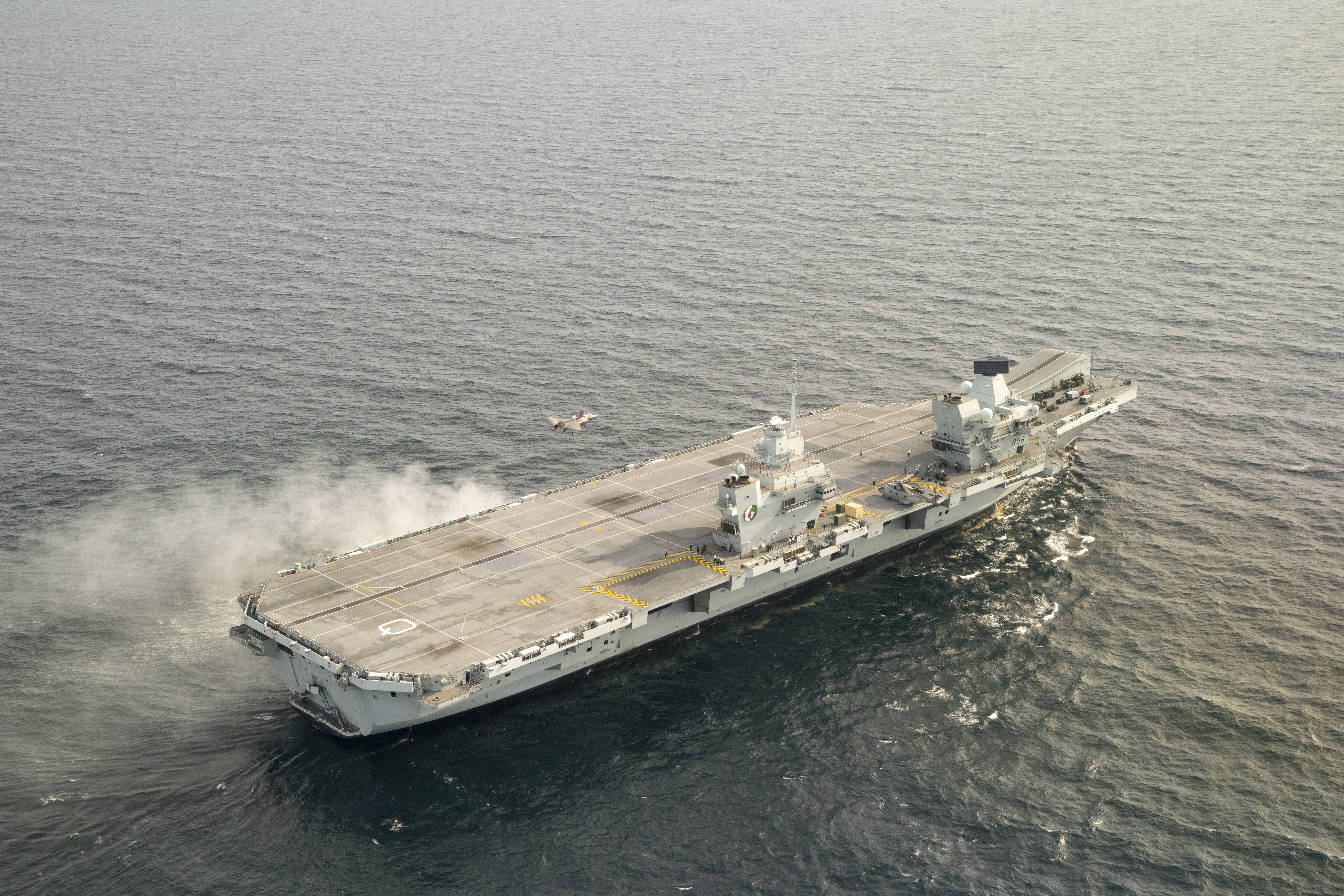 Two F-35B Lightning II aircraft from the F-35 Integrated Test Force (ITF) successfully landed onboard HMS Queen Elizabeth on 1 November 2018 marking the beginning of the second phase of Development Testing (DT-2) of first-of-class flying trials (FOCFT). Over the next month they will continue to lay the foundation for the next 50 years of fixed wing aviation in support of the UK’s Carrier Strike Capability by concentrating on external stores testing, minimum performance short take-offs and shipboard rolling vertical landings, and night operation. Maj Michael ‘Latch’ Lippert, USMC landed first in BF-04 and was followed by Mr. Peter ‘Wizzer’ Wilson in BF-05. Both ITF test pilots are based at Naval Air Station Patuxent River, Maryland. BF-4 Test 0891 / Flight 528 BF-5 Test 0767 / Flight 385